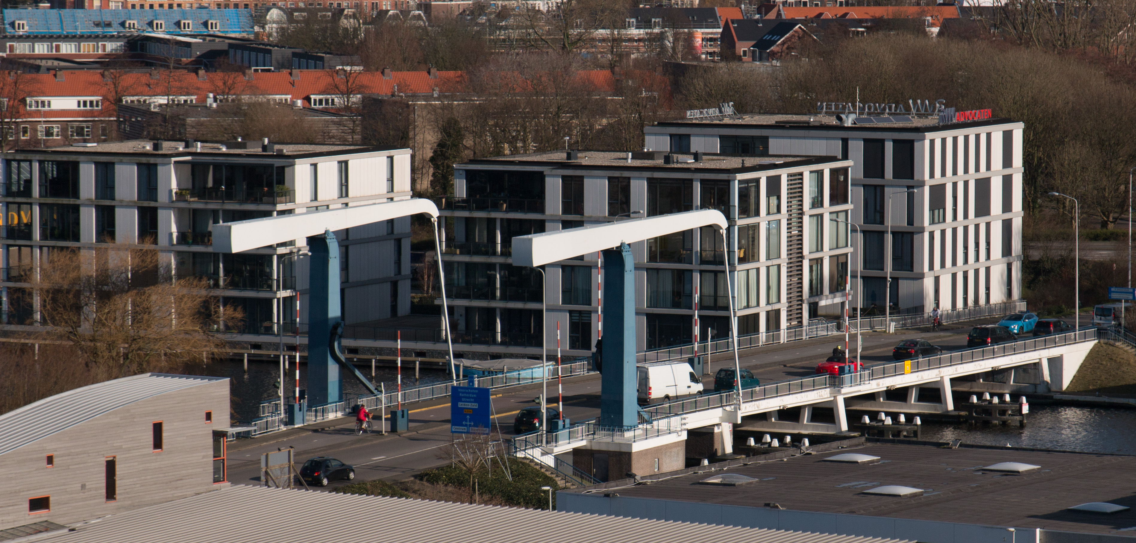 Leiden Churchill Bridge